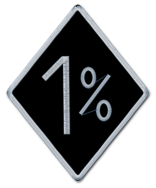 Illustration of a so called one percenter patch (1%) as used by many motorcycle clubs.